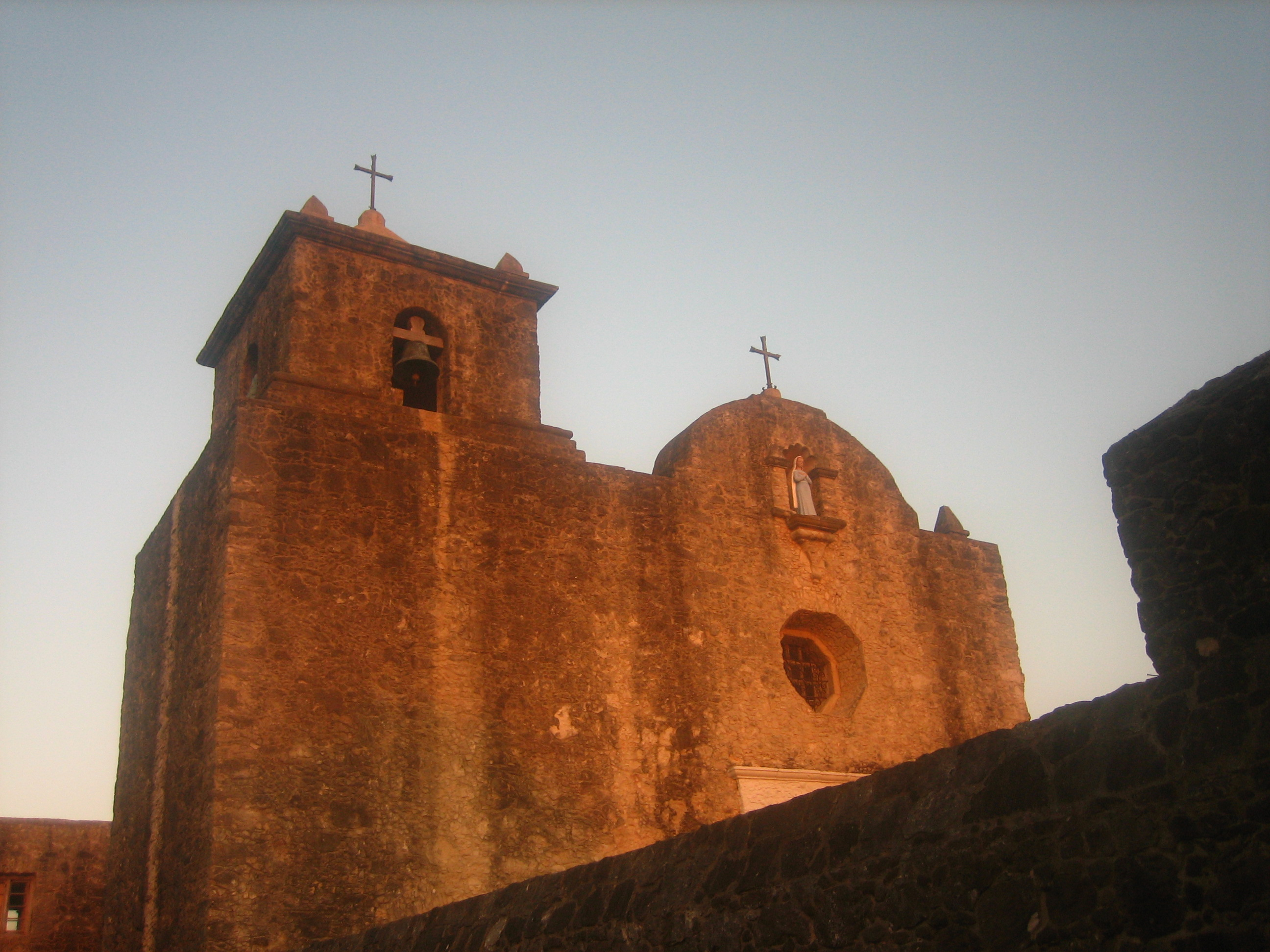 I took photo on July 30, 2008.Billy Hathorn (talk) 03:04, 8 September 2008 (UTC)